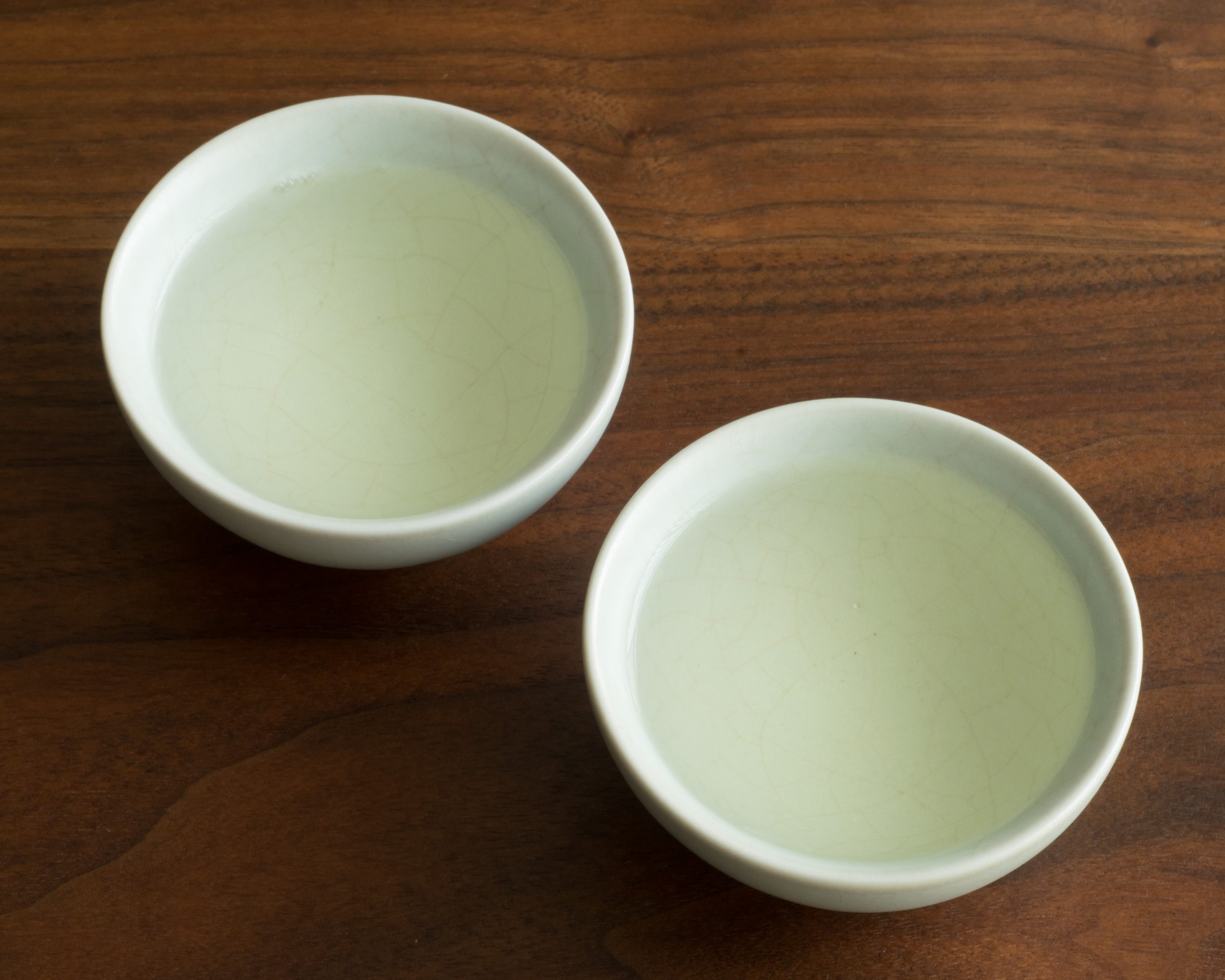 Two small tasting cups of Bai Jiguan